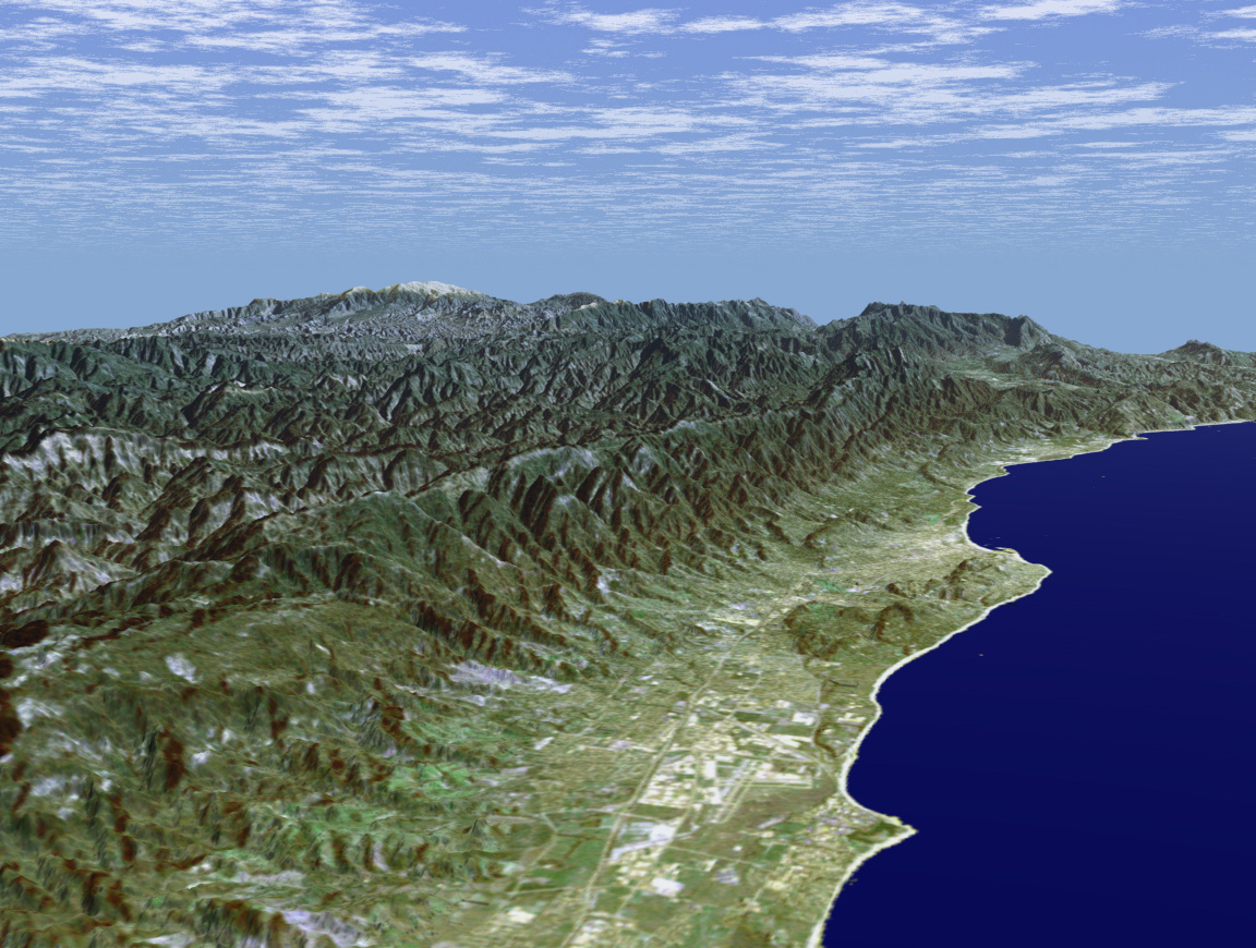 Santa Barbara, California, mountain backdrop, and long and varied coastline.